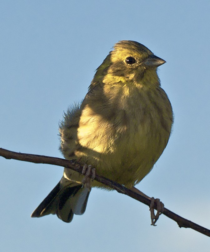 Female Yellowhammer (Emberiza citrinella), Augustusburg, Saxony, Germany